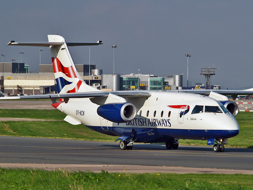 Sun-Air of Scandinavia (leased from AGT&T) OY-NCN, a Dornier Do-328JET-310 taxies to take off from runway 05 left at Manchester Airport with flight BAW8248 to Billund. Monday 28th July 2008